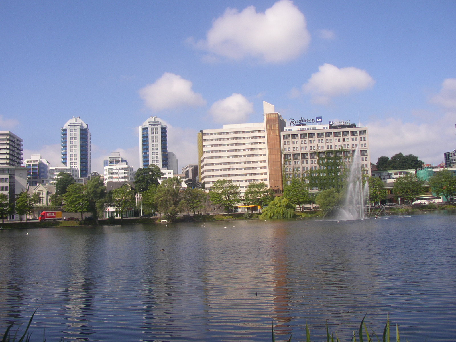 Modern area of city of Stavanger in Norway.